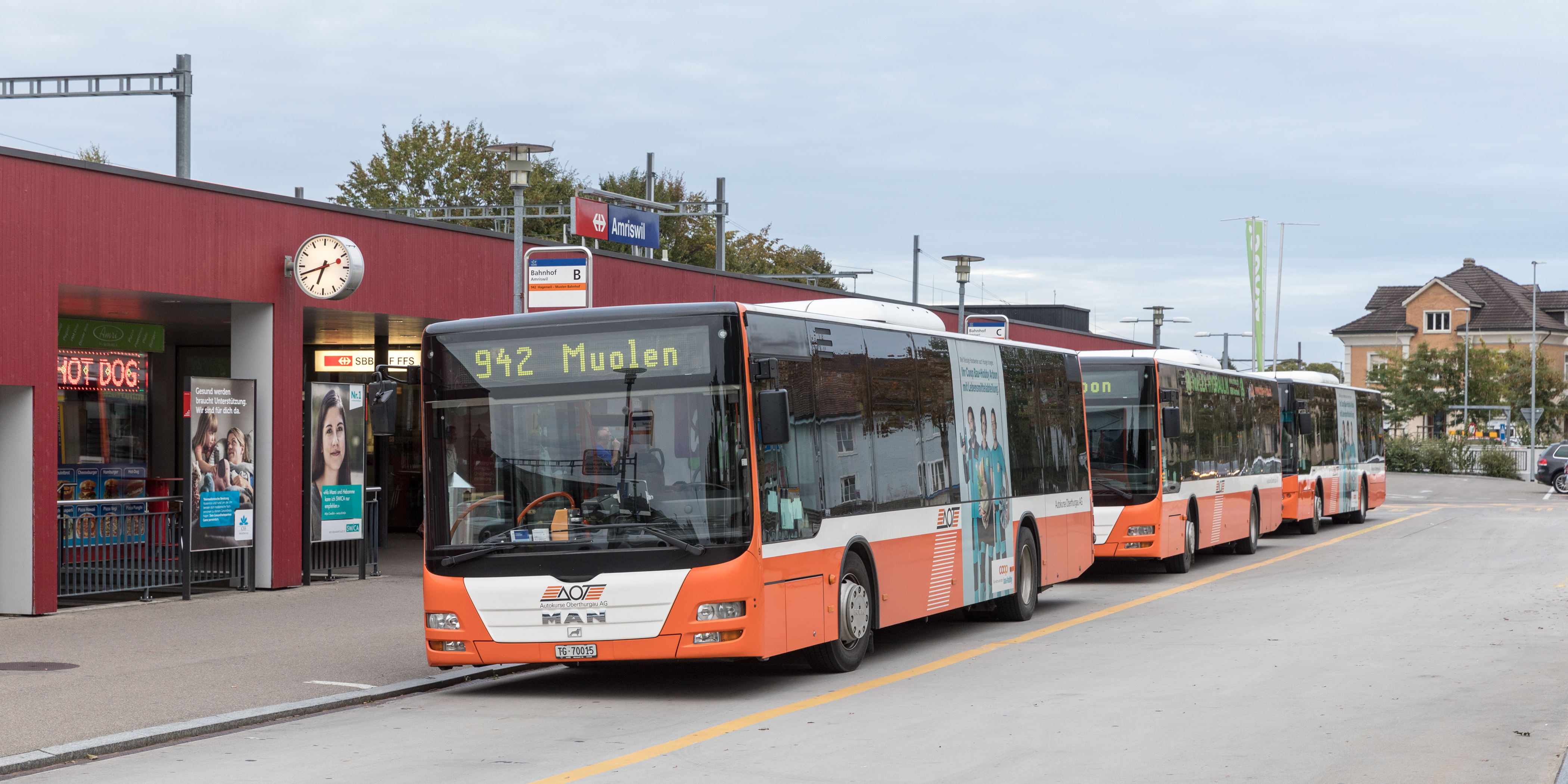 Train and bus station of Amriswil, canton of Thurgau, Switzerland